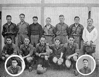 Football team of Stade Francais, champions of Paris.